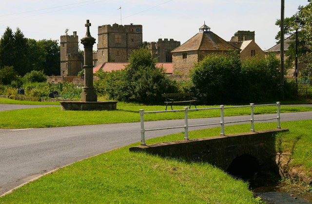 Memorial Cross Erected by grateful friends in memory of the Lady Augusta Milbank who died 15th September 1874. Snape Castle is in the background.